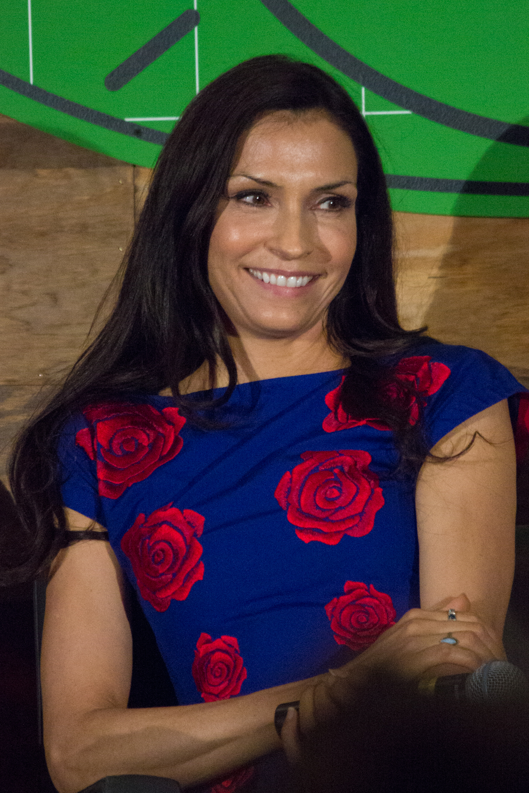 Actress Famke Janssen at the ATX TV Festival 2014 for the TV show Hemlock Grove